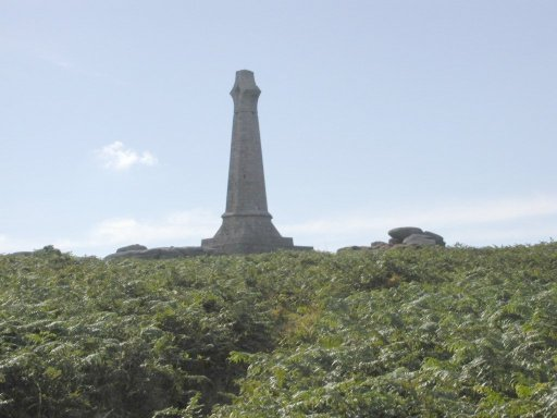 The Basset cross on Carn Brea. Taken in 1996 by user:Ash. The inscription on the monument reads: THE COUNTY OF CORNWALL TO THE MEMORY OF FRANCIS LORD DE DUNSTANVILLE AND BASSET AD 1836